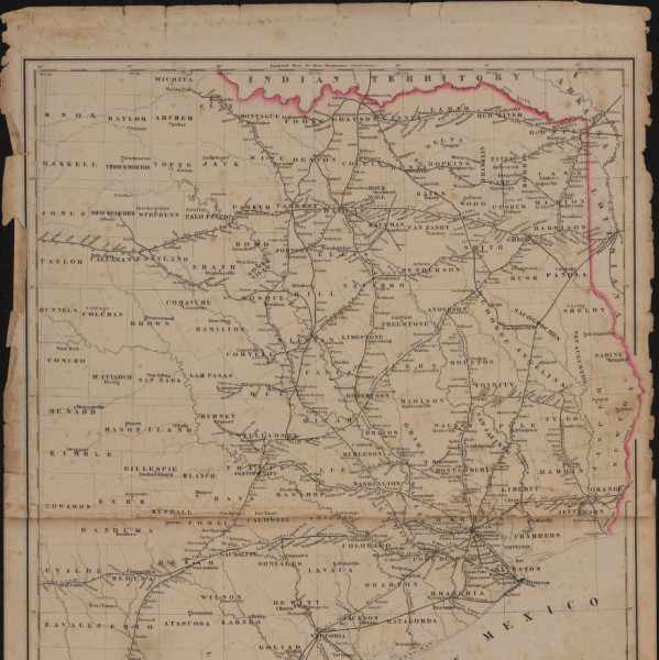 Railroad Map of Texas East of the 100th Meridian